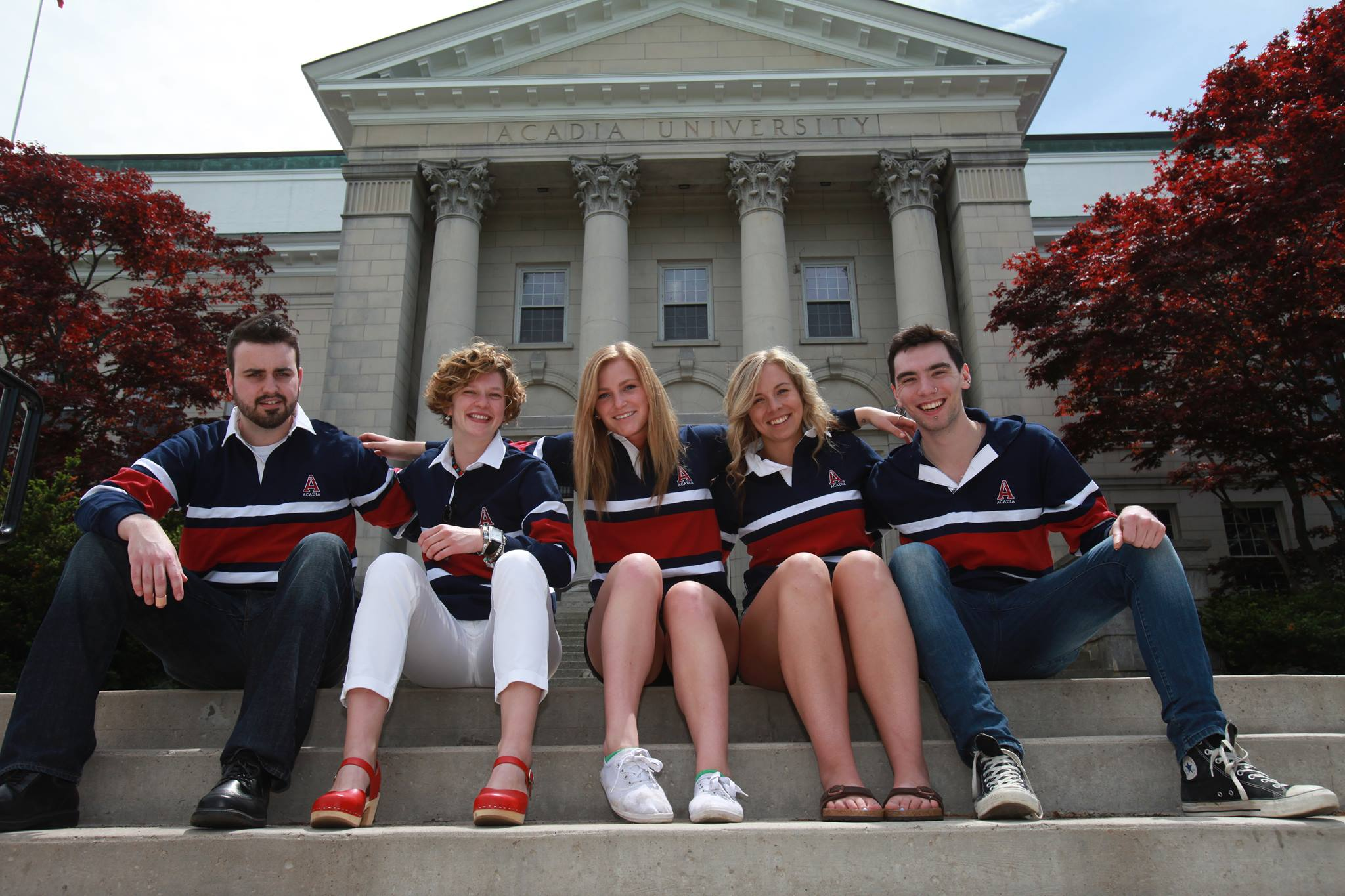 The ASU Executive during the 2014-2015 academic year. From Left: VP Finance Jalen Sabean, President Callie Lathem, VP Communications Suzanne Gray, VP Programming Chelsey Spinney, and VP Academic Liam Murphy.